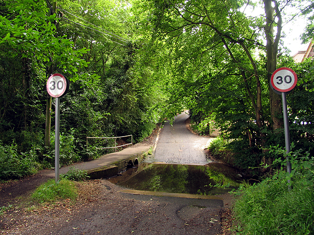 Ford in Burghfield. This ford is marked on the map, in the north western section (near the centre of the square). The square is about half village and half farmland.